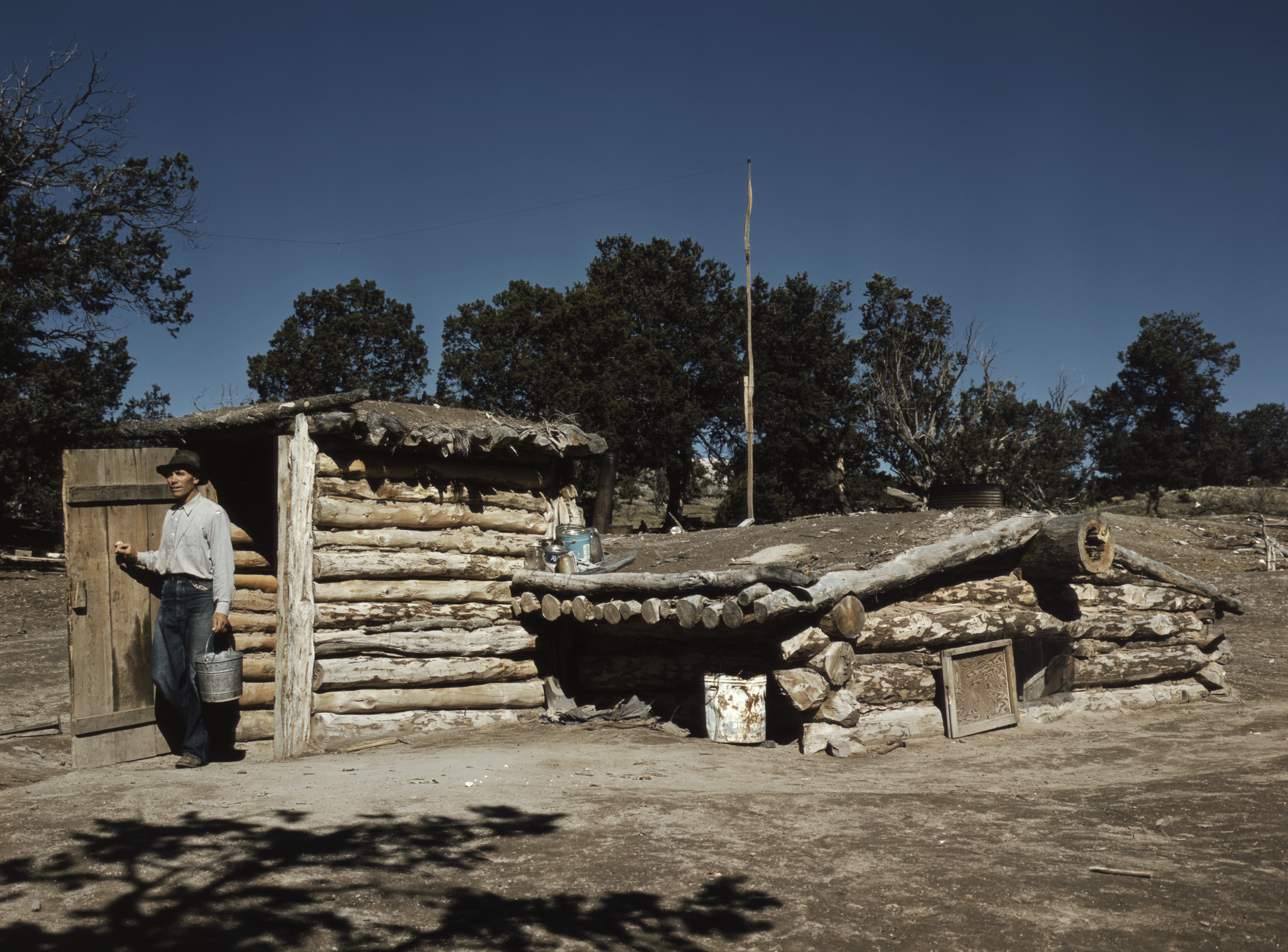 Dugout home. Pie Town, New Mexico. Early color photograph.